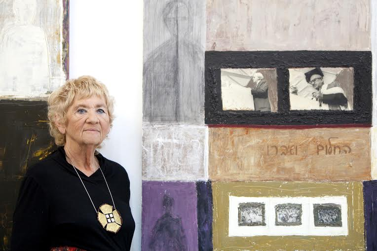 Hanita Ben Jano